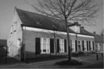 Berg 35 te Nuenen